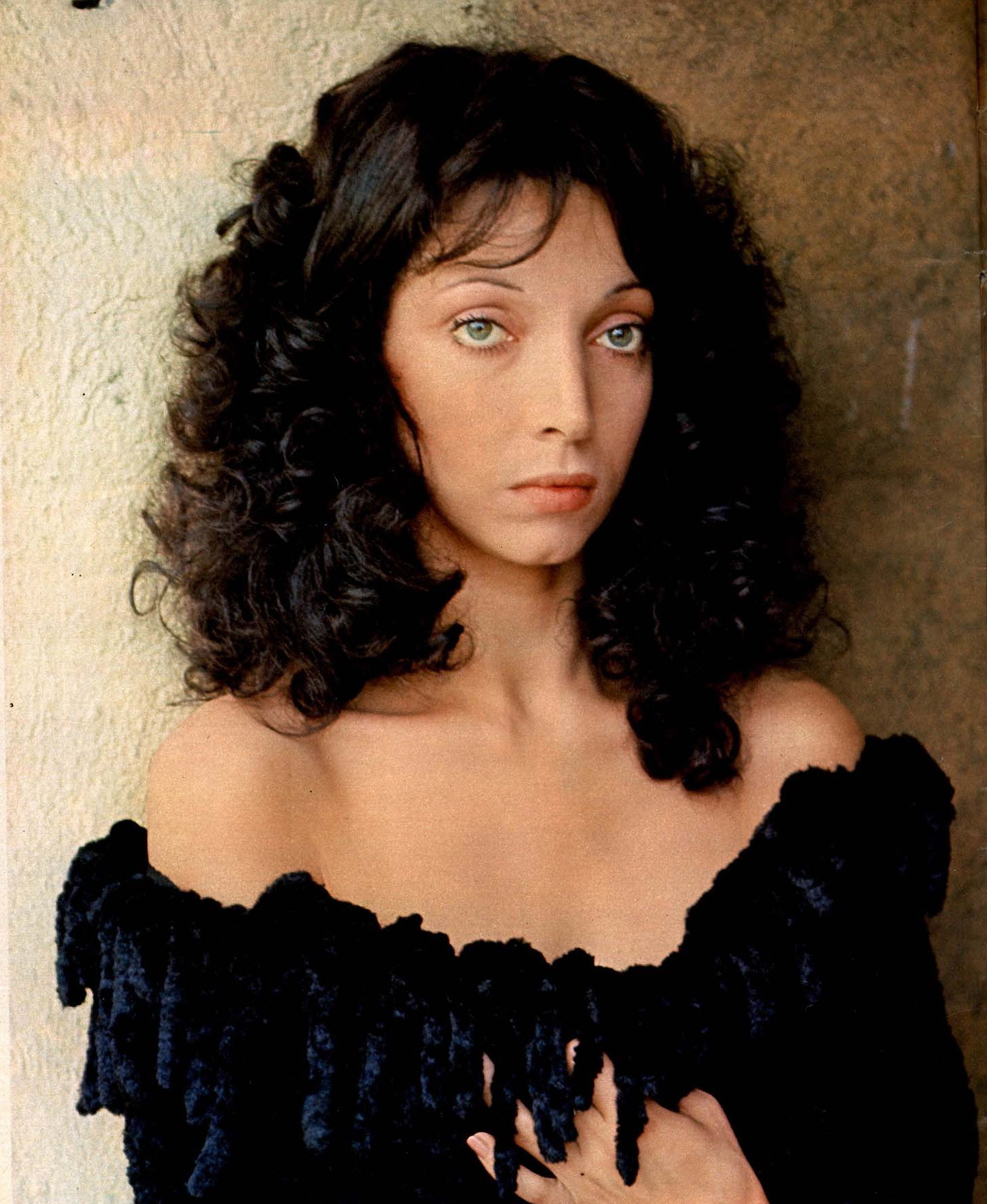 Italian actress Mariangela Melato in her house in Rome